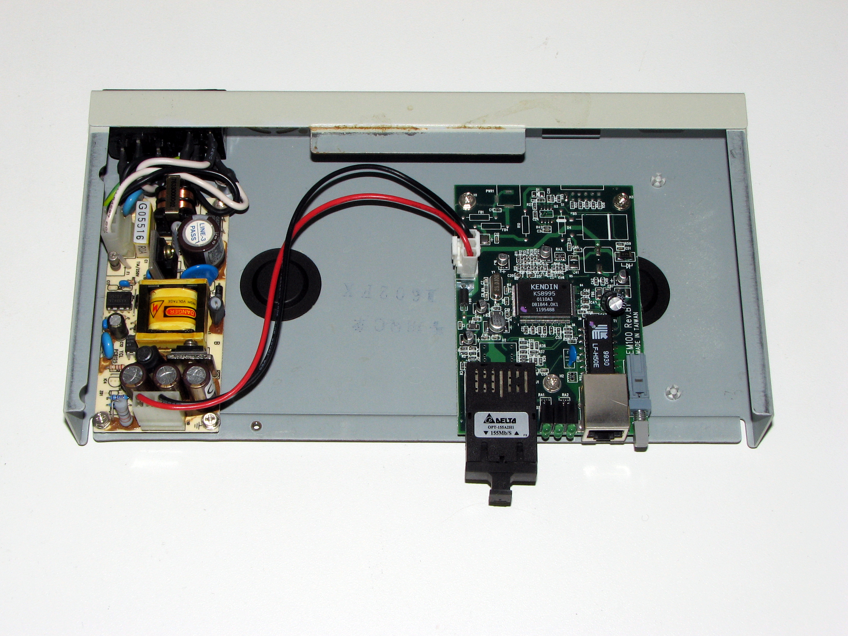 An Ethernet UTP to fiber optics media converter, aka transceiver. To the left is the power supply unit.